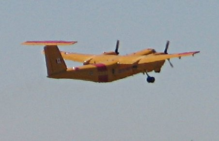 A DHC-5 "Buffalo" cargo airplane taxiing, photographed at the Spokane Skyfest airshow